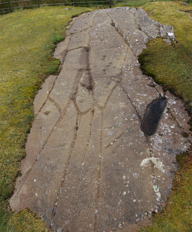 Cairnbaan Cup And Ring Marks, Kilmartin Glen, Scotland